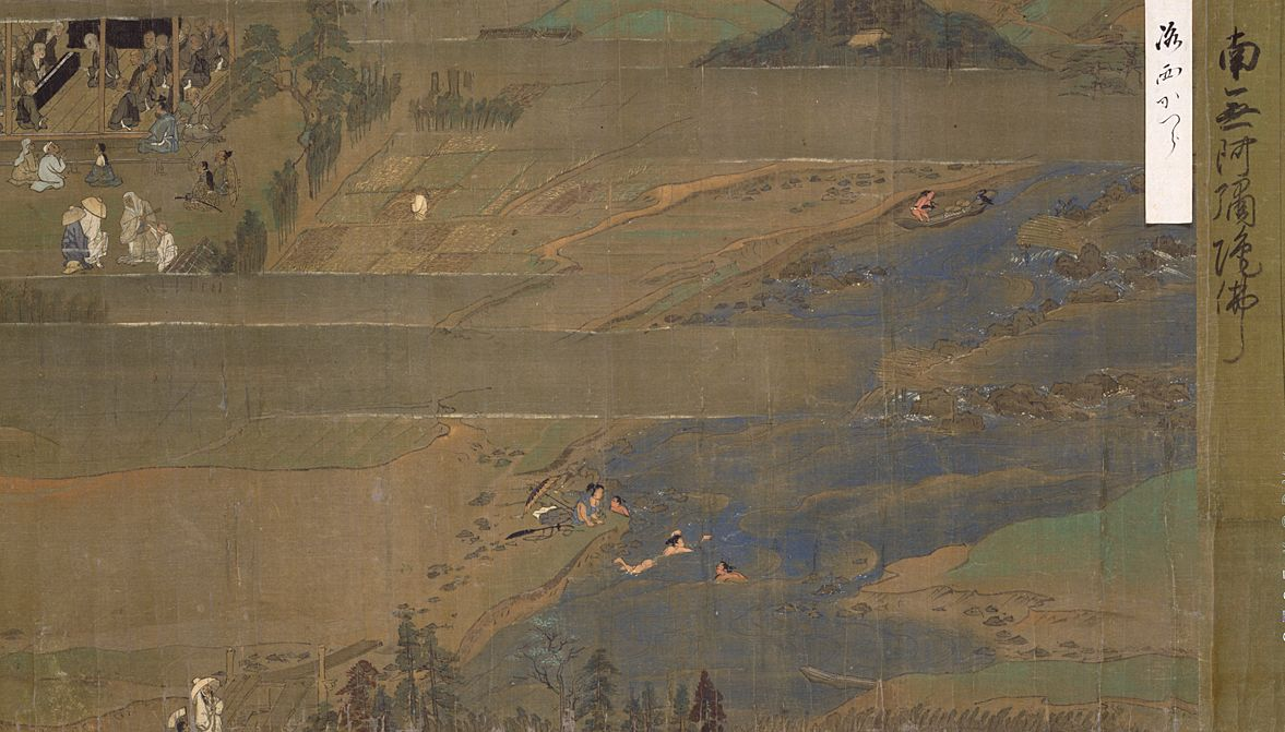 Illustrated Biography of the Priest Ippen： Volume 7 (絹本著色一遍上人絵伝, kenpon chakushoku ippen shōnin eden). This is part of the handscroll located at the Tokyo National Museum in Tokyo. Color on silk. Size of the full scroll: 37.8 cm x 802.0 cm. The scroll has been designated as National Treasure of Japan in the category paintings.